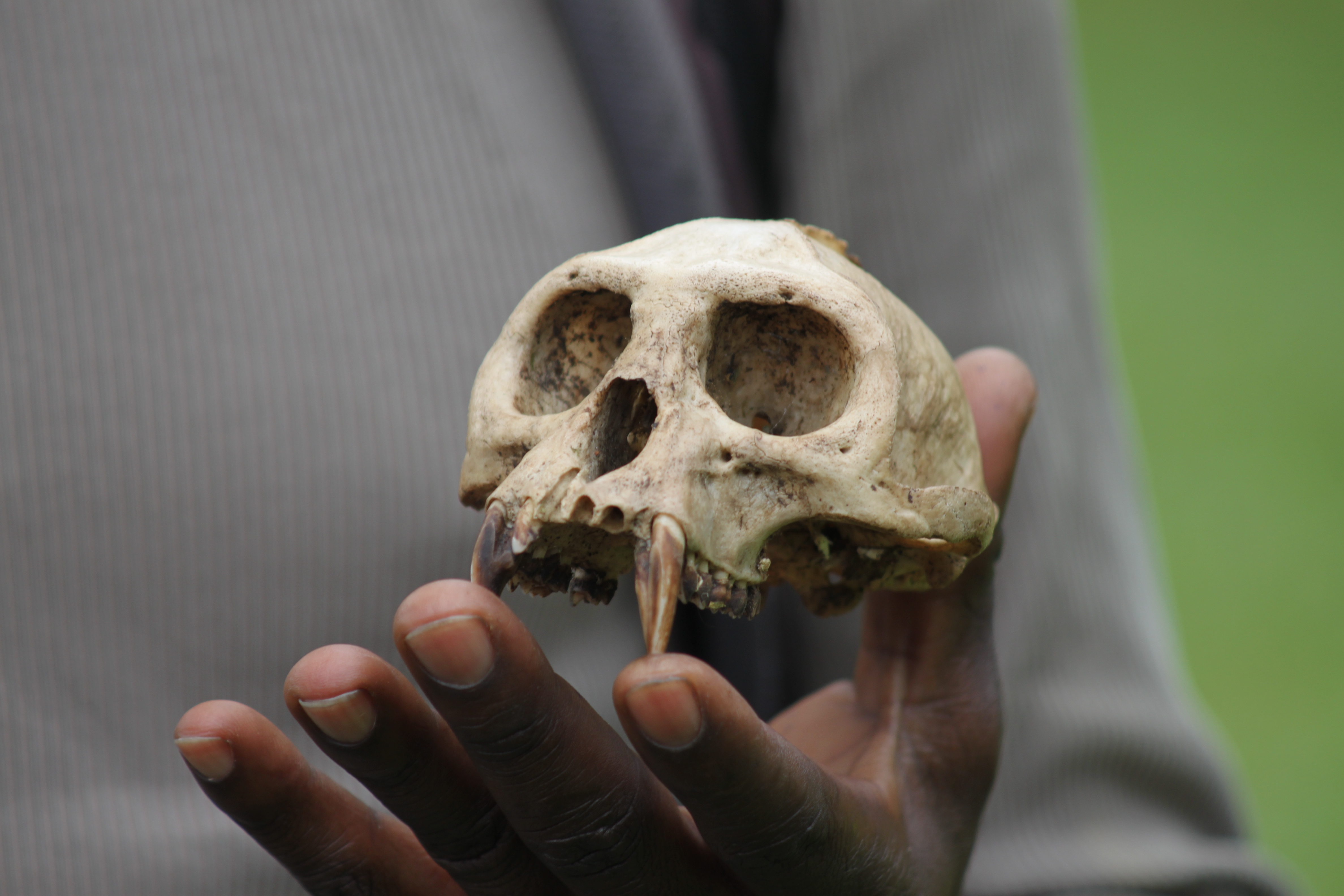 A hand holding the skull of a Ugandan red colobus showing large canine teeth.